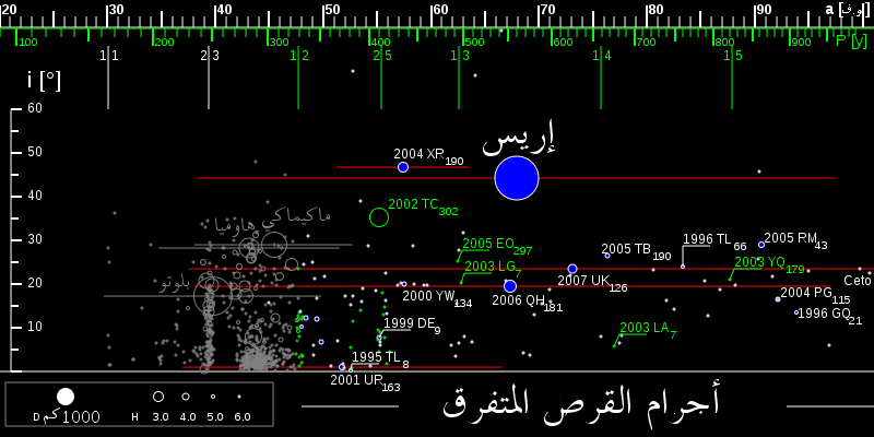 Distribution of Scattered Disk objects.